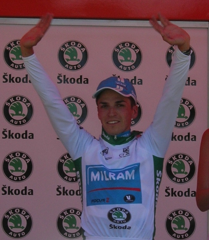 Team Milram rider Thomas Rohregger after receiving the white King of the Mountains jersey on the podium after Stage 3 of the 2010 Tour Down Under into Stirling.